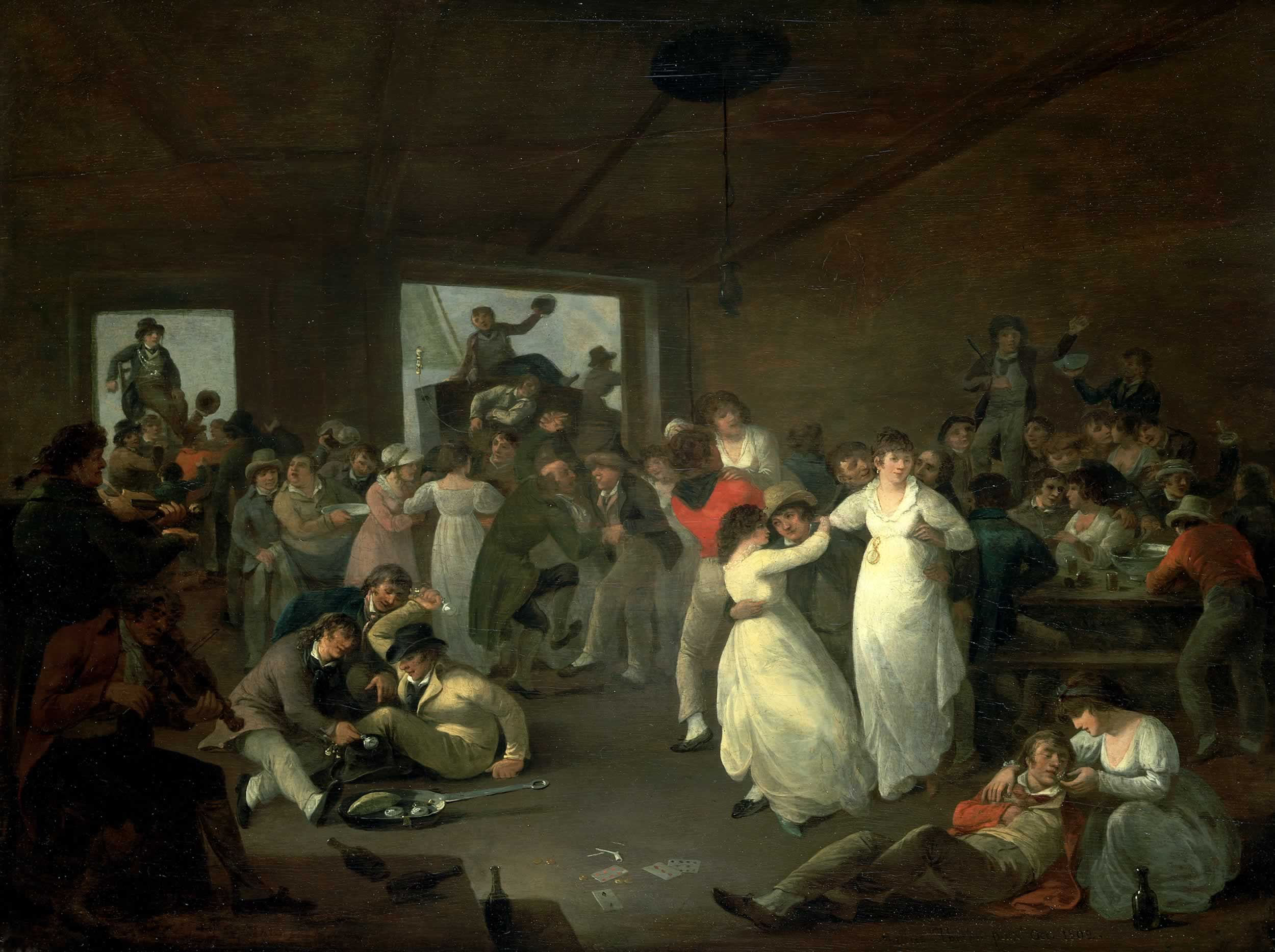 A scene in an unspecified tavern at Portsmouth after one or more ships have been paid off. The painting may be a retrospective celebration of the Battle of the Glorious First of June 1794 since, although executed much later and after Ibbetson had moved to the north of England, it reuses elements of a watercolour by him showing a similar scene and dated 3 July 1794. The room is crowded with sailors and men and women carousing. The ceiling, floors and walls enclose the action and a single lamp hangs from the ceiling to the right. The outline of a carriage, with several revellers alighting or departing frames the door on the right. The opening to the left shows a seaman wearing a hat and chain, with a boatswain's whistle, borne aloft on a chair. Two bare-headed women are highlighted in the foreground: the one to the right has two men paying attention to her, and the woman on the left sits on a sailor's knee. Impropriety is implied in their conduct. Although sailor's pay was low and often in arrears, prize money provided welcome bonuses after victorious actions, but it was rarely saved. The narrative indicates a group of three seamen in the foreground to the left of centre both pretending to fry their watches or play 'conkers' with them. This refers back to a celebrated incident in 1762 when, after capturing a Spanish galleon, seamen of the 'Active' and 'Favourite' were so loaded with prize money that they were recorded as frying watches, as shown. One of the women in the foreground wears a watch around her waist.